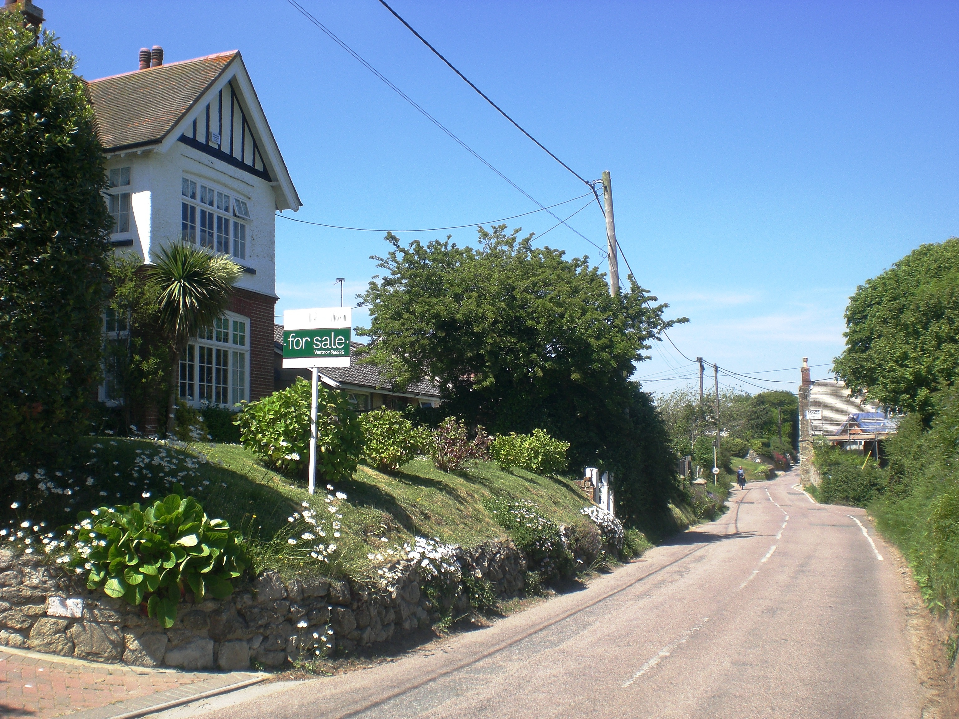 The main Newport Road running through Bierley on the Isle of Wight.